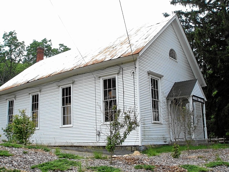 The Andover Historical Museum in Andover, Connecticut; formerly Andover Town Hall, and a contributing element of the Andover Center Historic District.